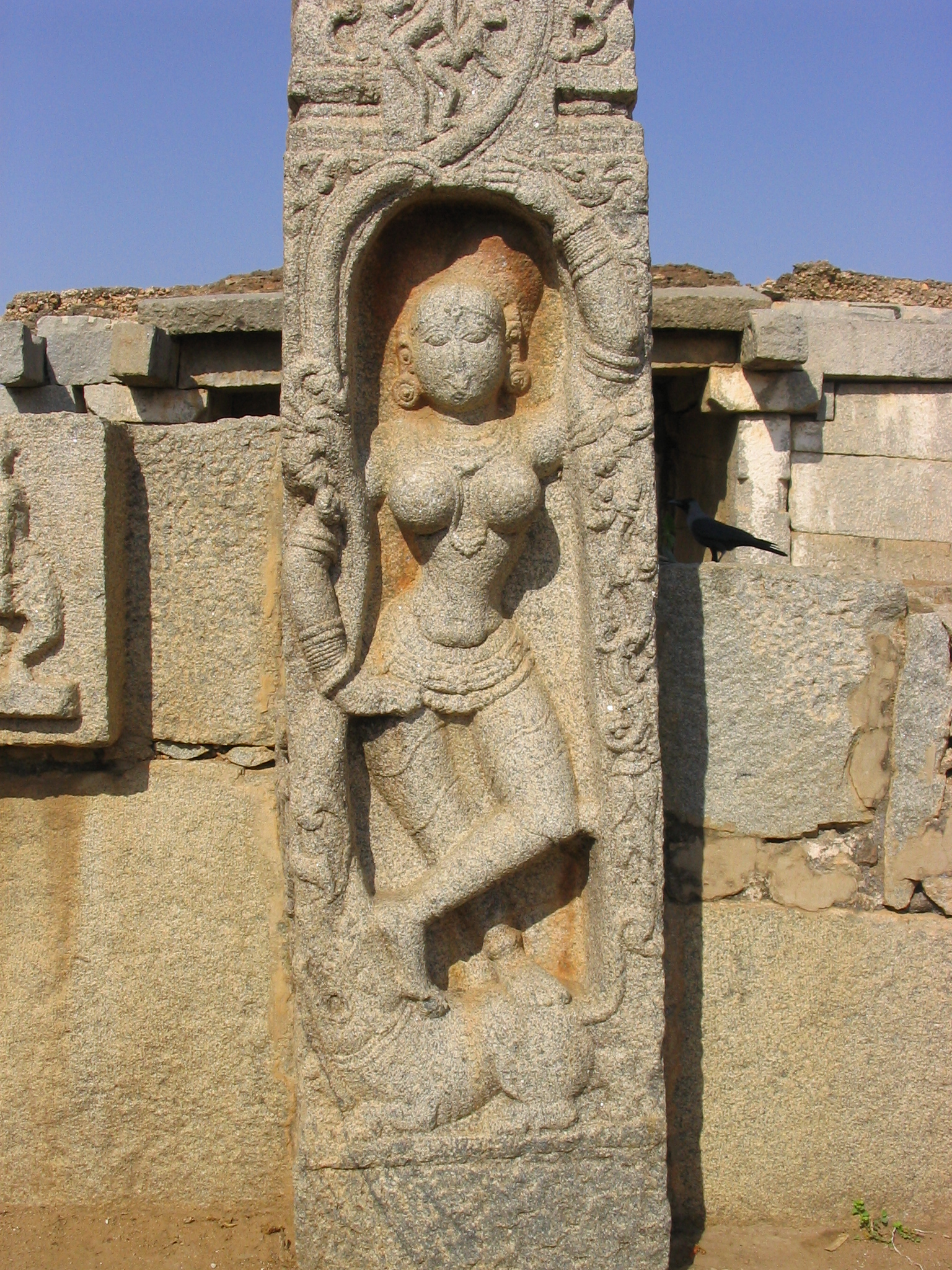 Vittala-Temple, Hampi, Vijananagar (Karnataka, India)